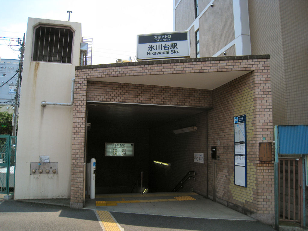 Hikawadai Station No. 2 entrance